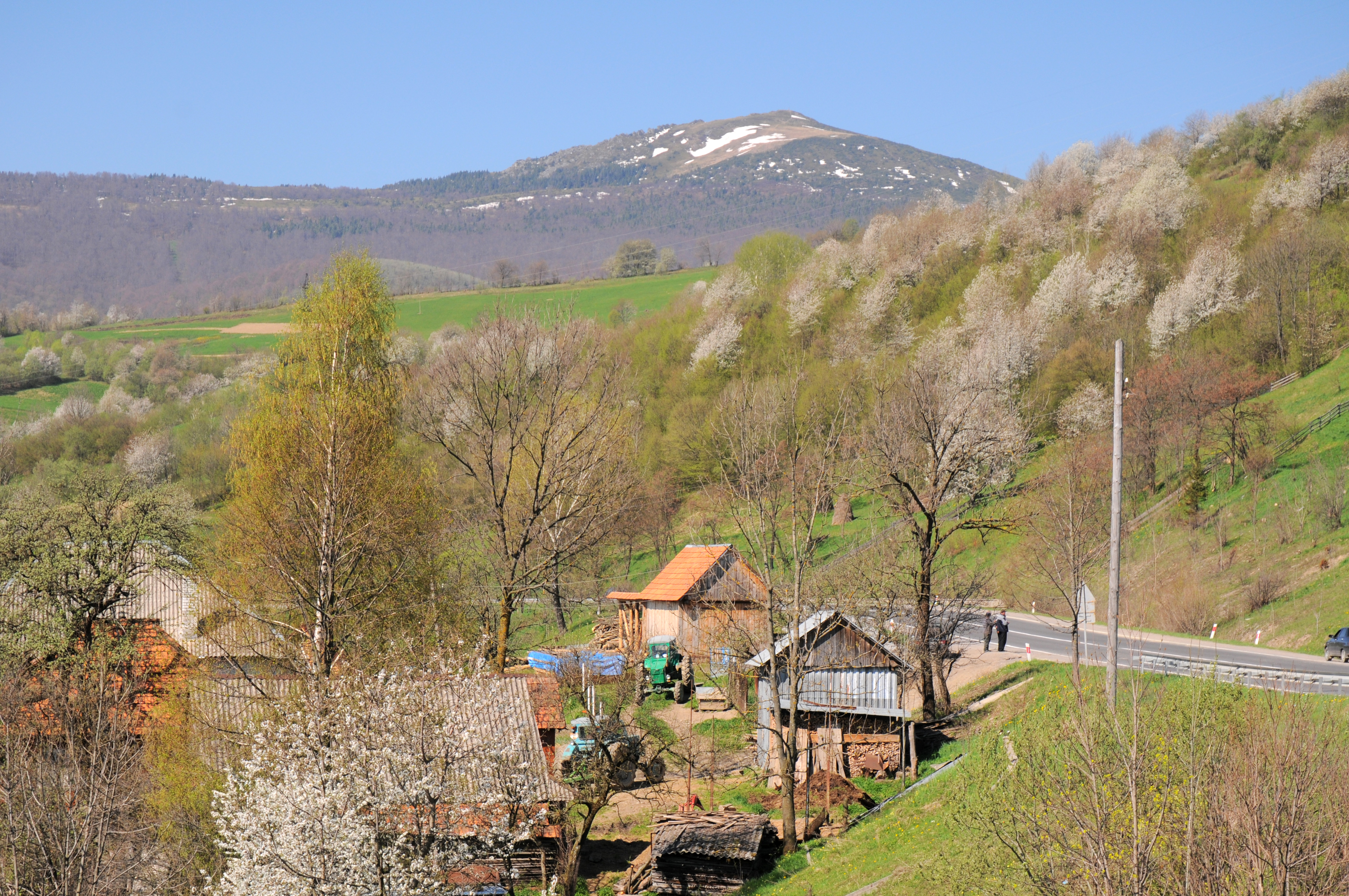 Pikuy mountain, route E50 Kyiv-Chop view